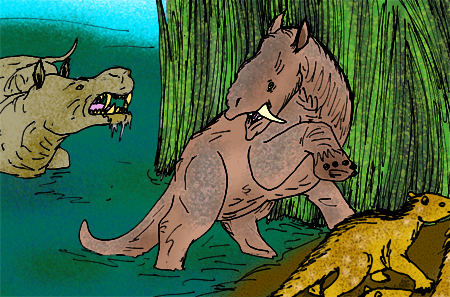 The Late Paleocene uintathere, Prodinoceras xinjiangensis, of what is now Mongolia. (C) Stanton F. Fink